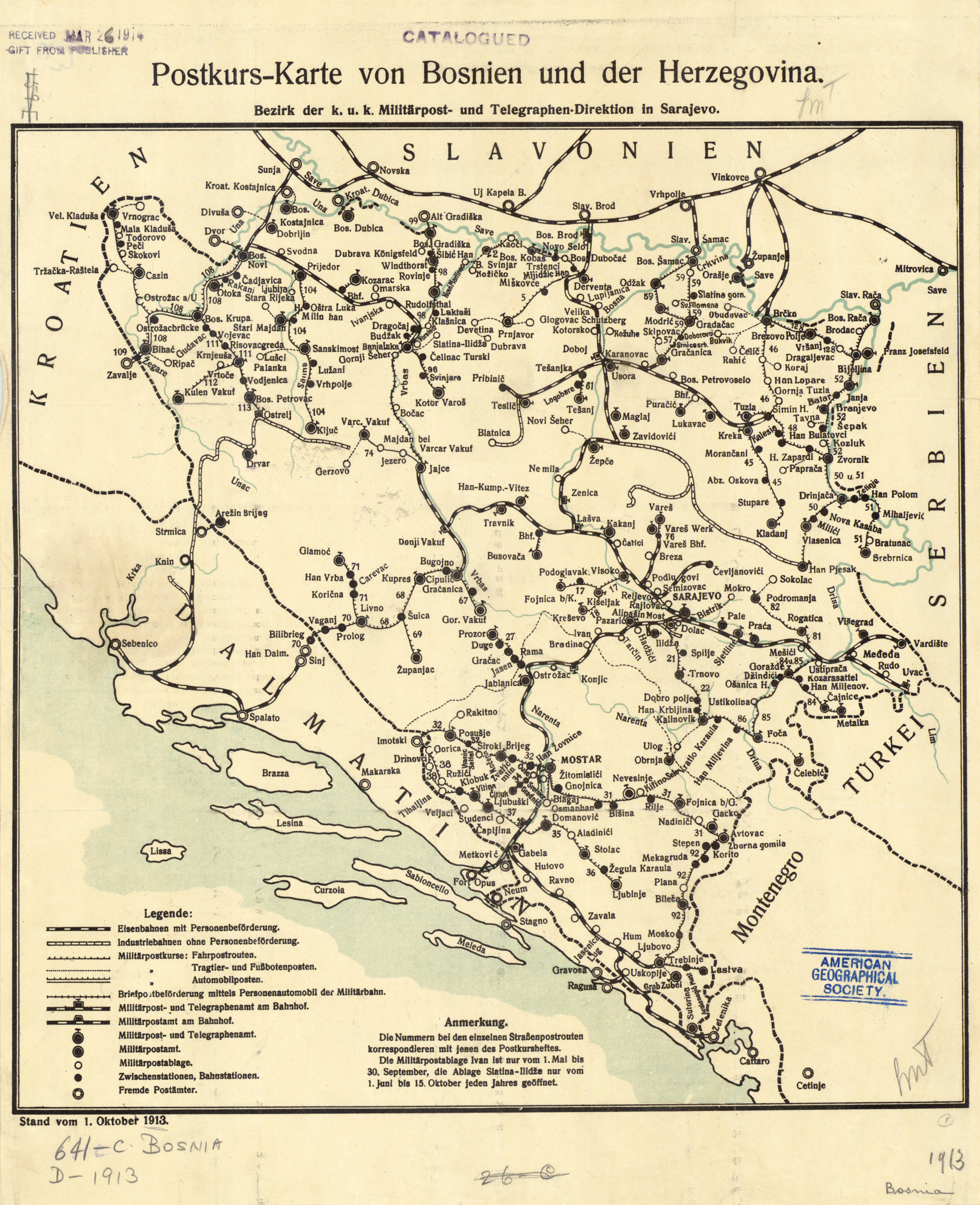 1913 postal map of Bosnia and Herzegovina